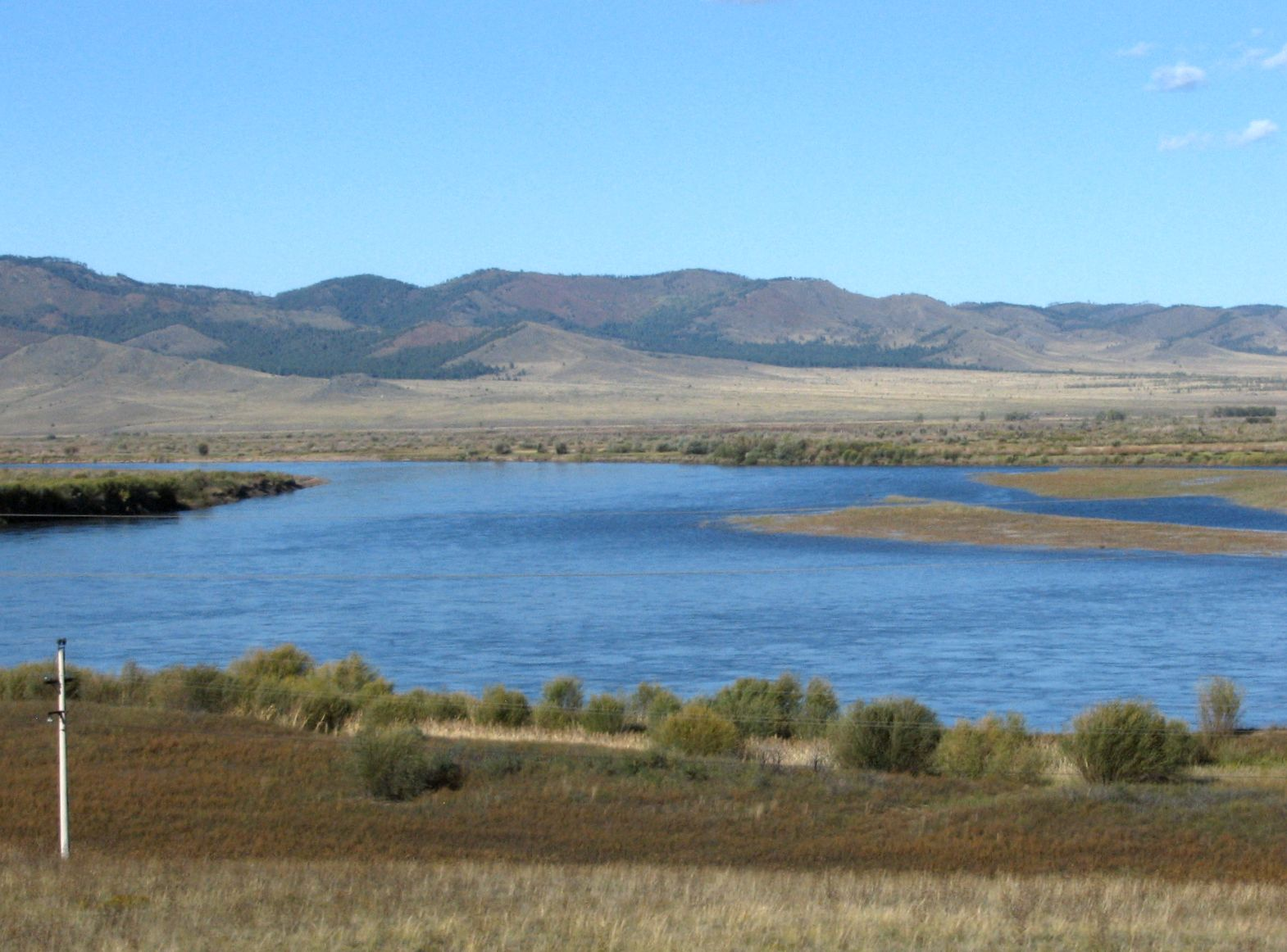 The Selenge River in Mongolia about 100-200 km from the Russian border.